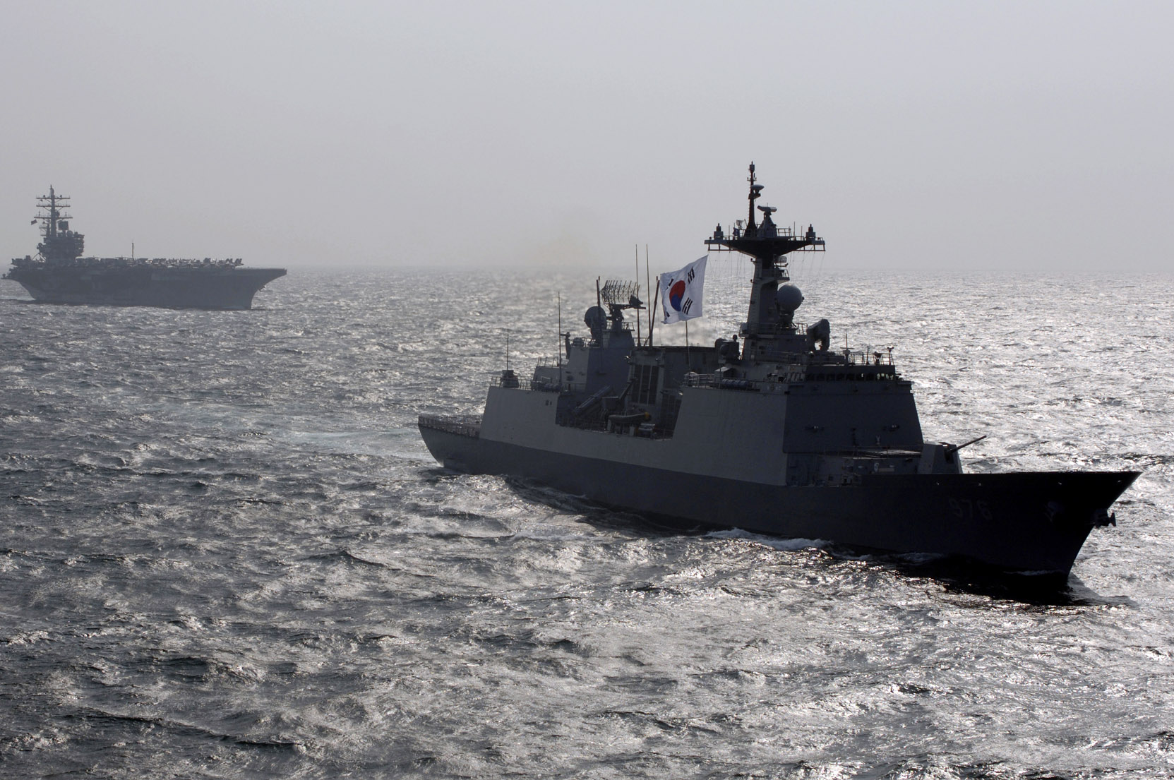 070327-N-7130B-150 SEA OF JAPAN (March 27, 2007) – The Republic of Korea Navy’s Munmu The Great (KDX II) takes its place as part of a formation with USS Ronald Reagan (CVN 76) in conjunction with Exercise Reception, Staging, Onward Movement and Integration/Foal Eagle (RSOI/FE) 2007. The exercise demonstrates the U.S. commitment to the ROK/U.S. alliance and enhances combat readiness of ROK and U.S. supporting forces through combined and joint training. U.S. Navy photo by Mass Communication Specialist 2nd Class Aaron Burden (RELEASED)